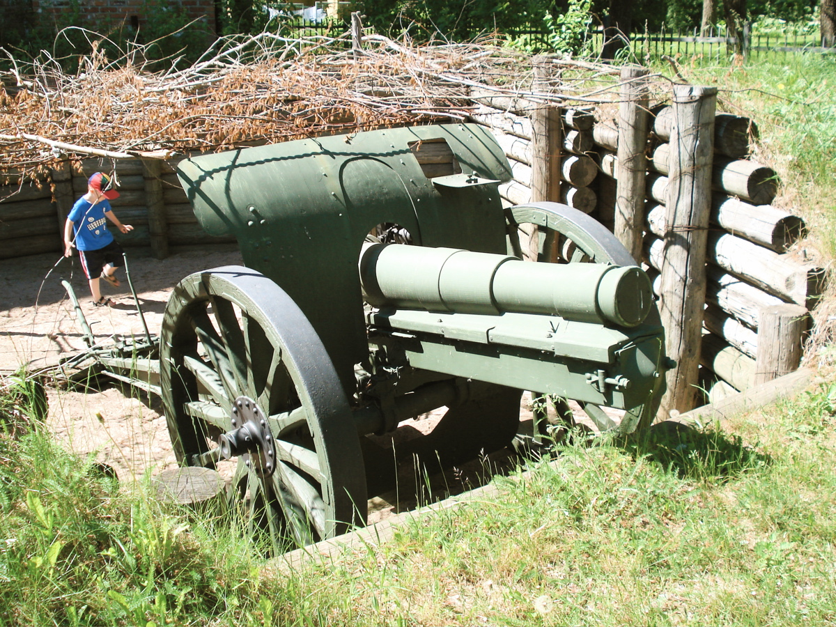 Soviet 122 mm howitzer Model 1909-1937, displayed in Hämeenlinna Artillery Museum. The Model 1909 howitzer was based on a German Krupp design. They were produced in Imperial Russia and then in the Soviet Union. As was typical for most World War I artillery pieces, the gun was modernised from 1937 onwards, the resulting guns called Model 09-37. Photo taken on June 18, 2006. Source: Photo by me, User:Balcer.